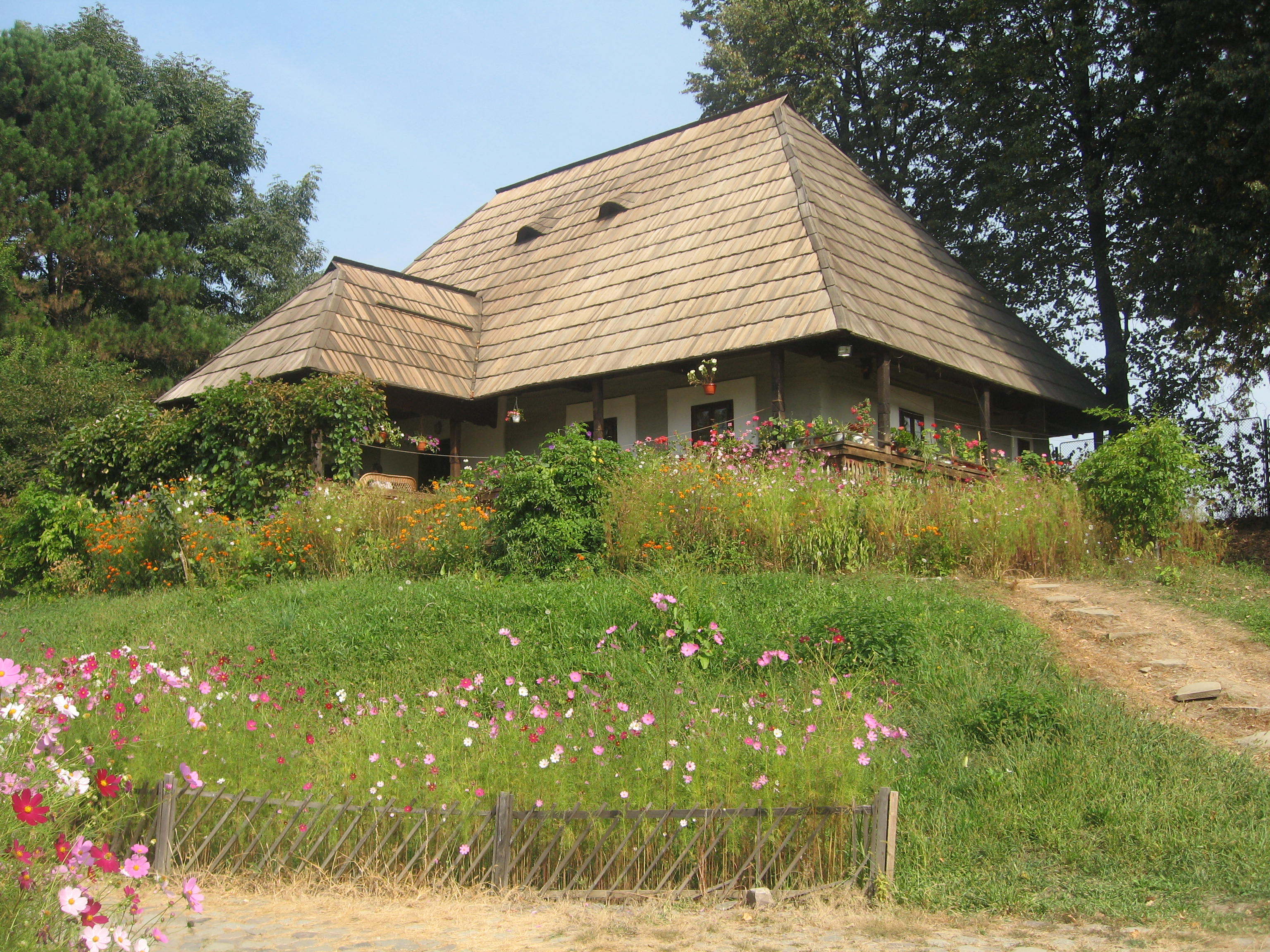 Bukovina Village Museum - The Roşu House, Dorna ethnographic area.